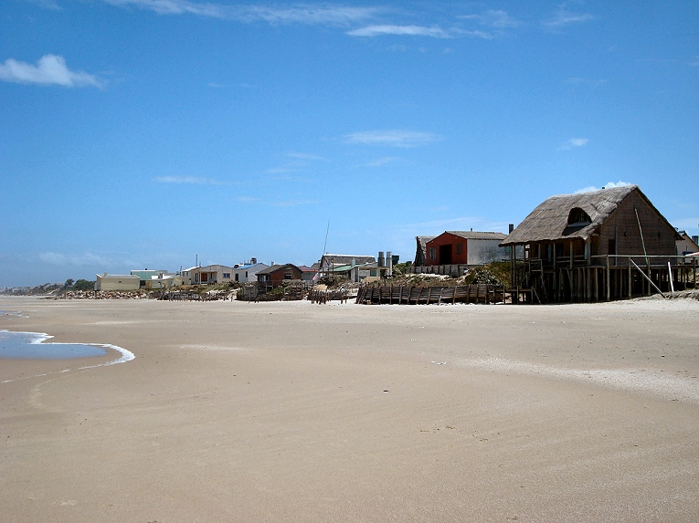 Beach of Aguas Dulces, Rocha Department, Uruguay.